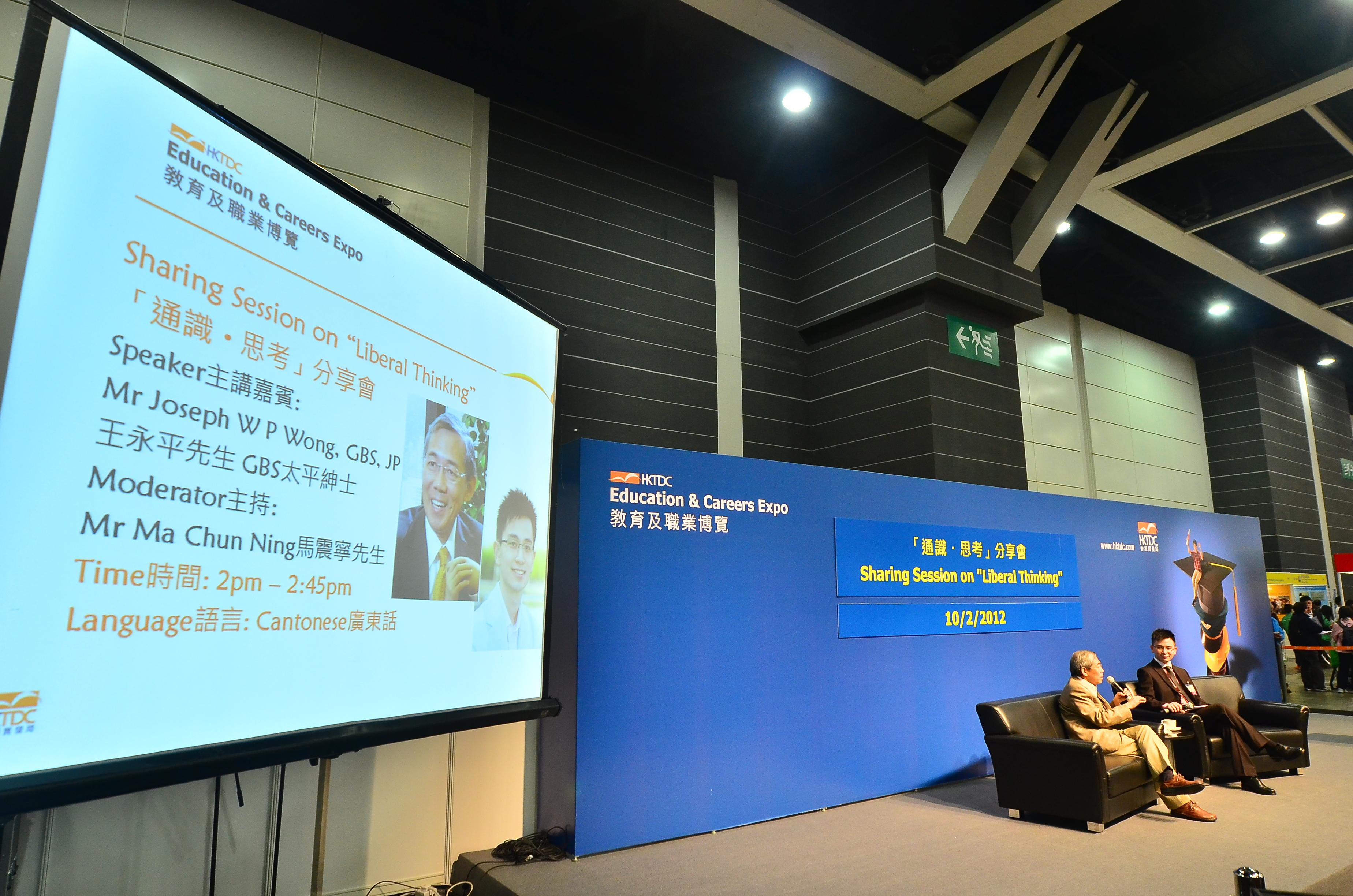 HKTDC Education & Careers Expo